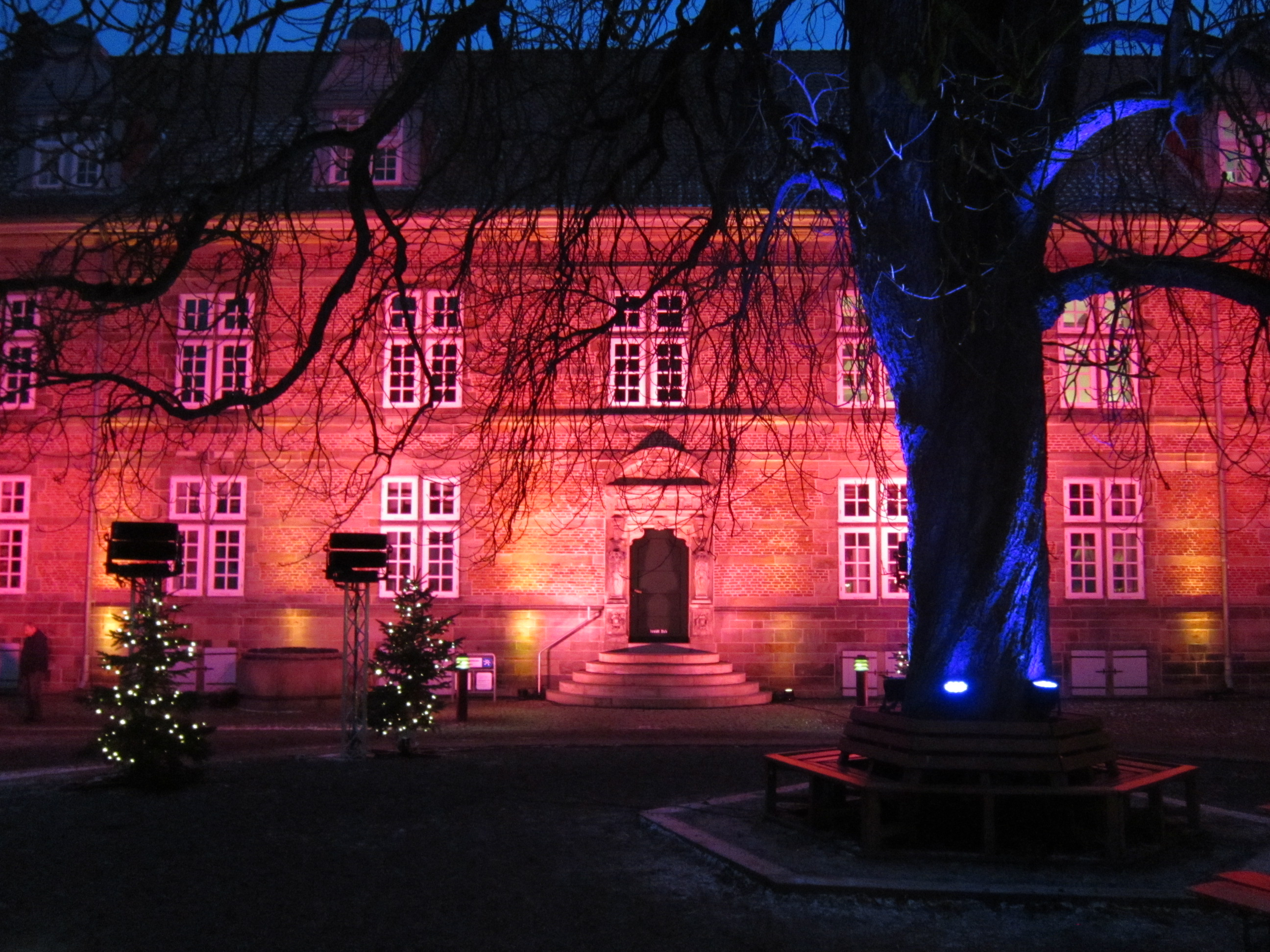 Illuminated castle "Schloss Landestrost" in Neustadt am Rübenberge (Region Hanover, Lower Saxony) during the action "Schlossleuchten" (Castle Lighting)